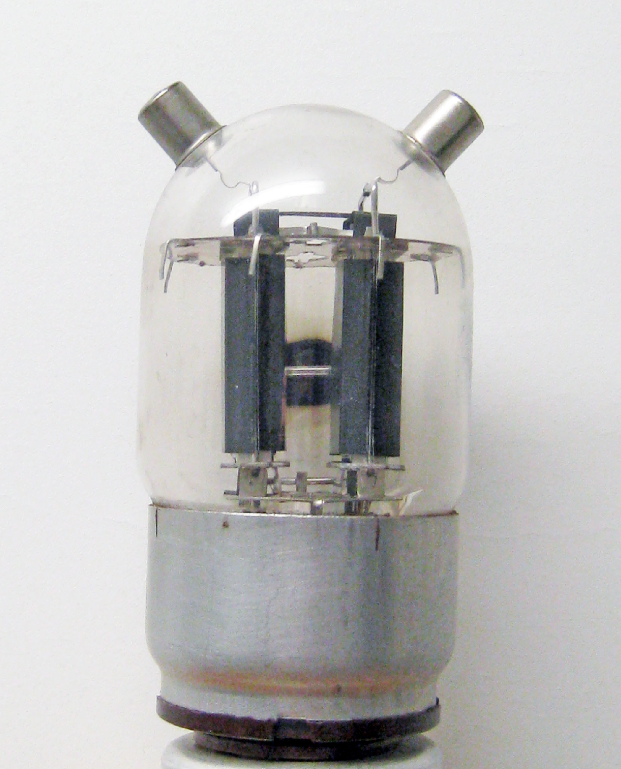 double beam power tetrode RCA-815